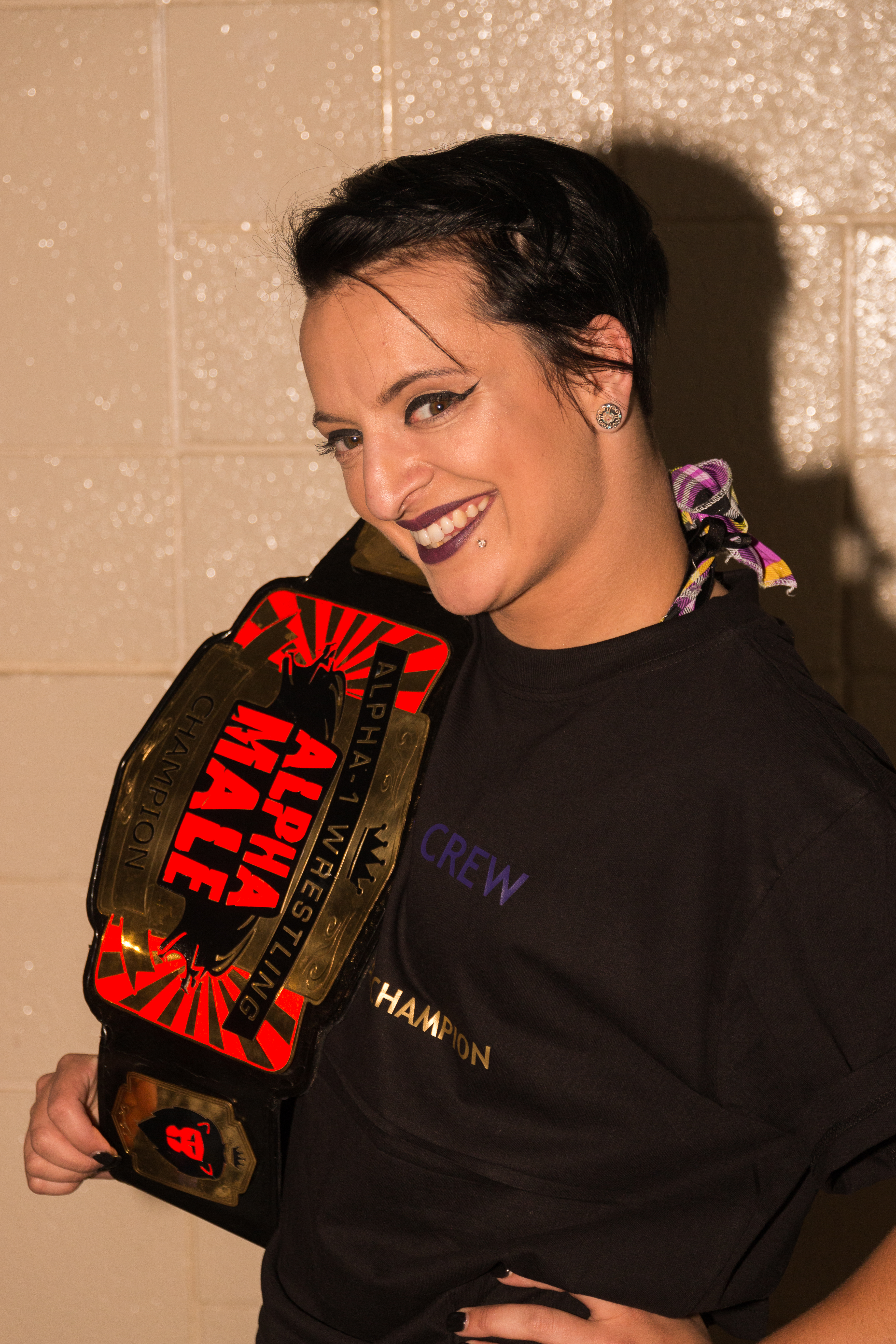 Heidi Lovelace posing with Alpha-1's "Alpha Male" championship belt